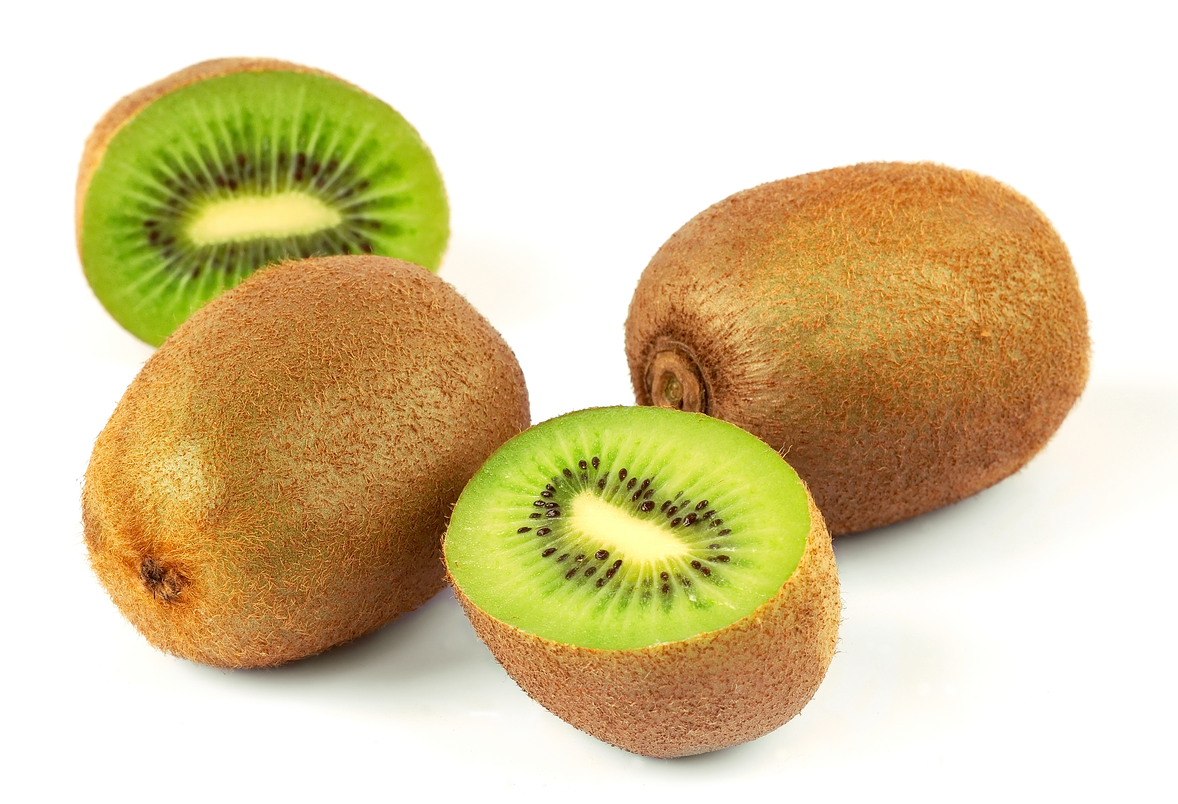 This image shows two whole and a cut green Hayward variety kiwifruit.